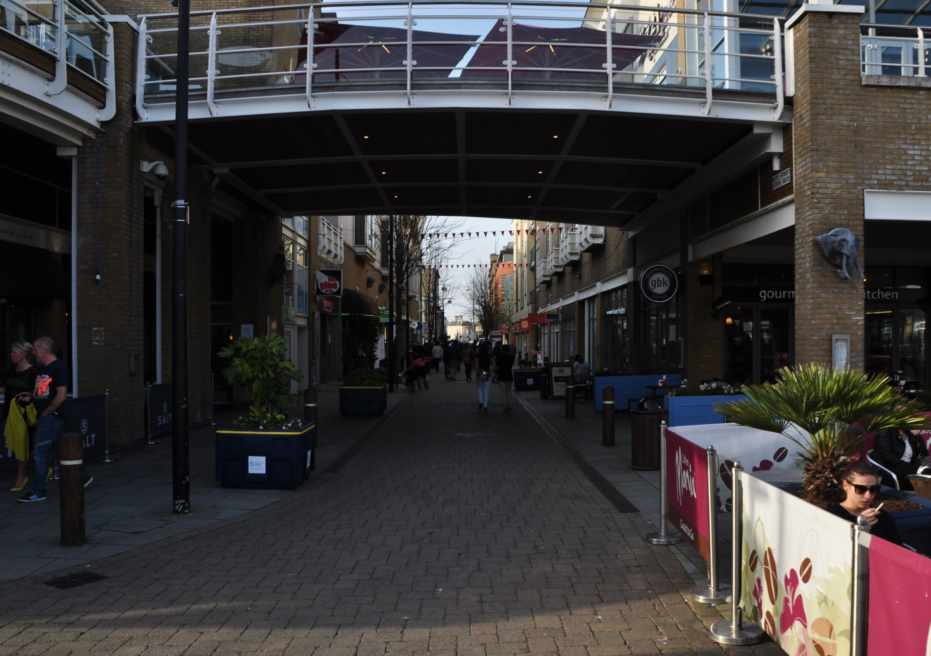 Mermaid Quay, Bute Street, Cardiff, Wales